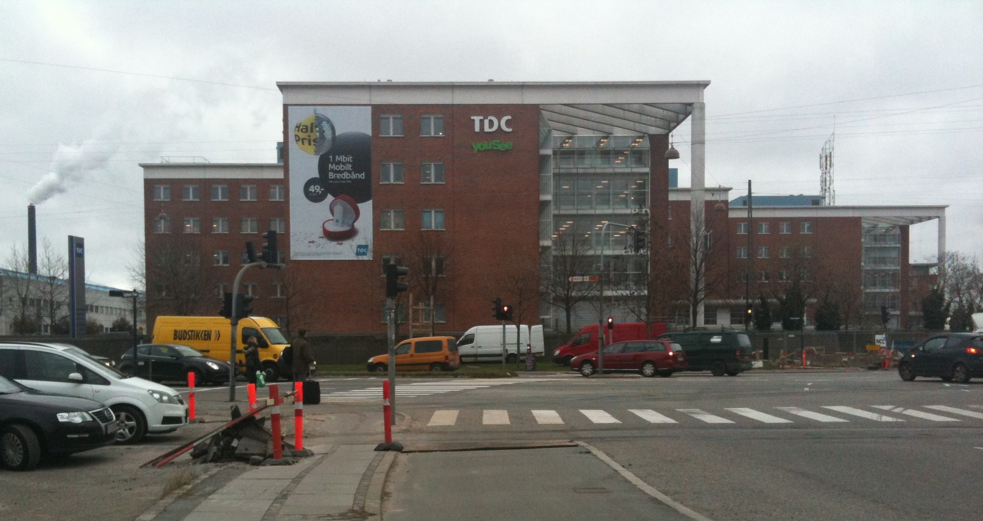 TDC quarters at Sydhavnen, Copenhagen.